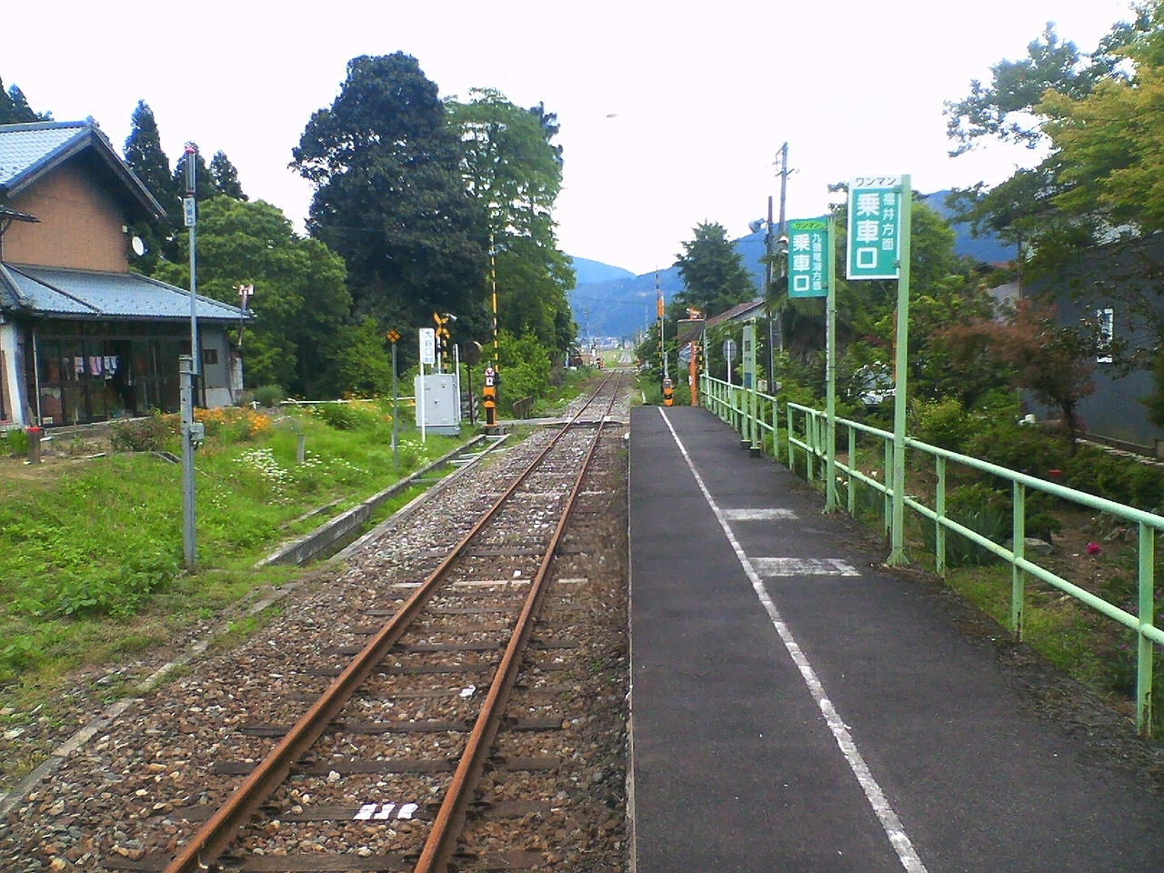 West Japan Railway Company Etsumi-Hoku Line, Echizen Takada Station.